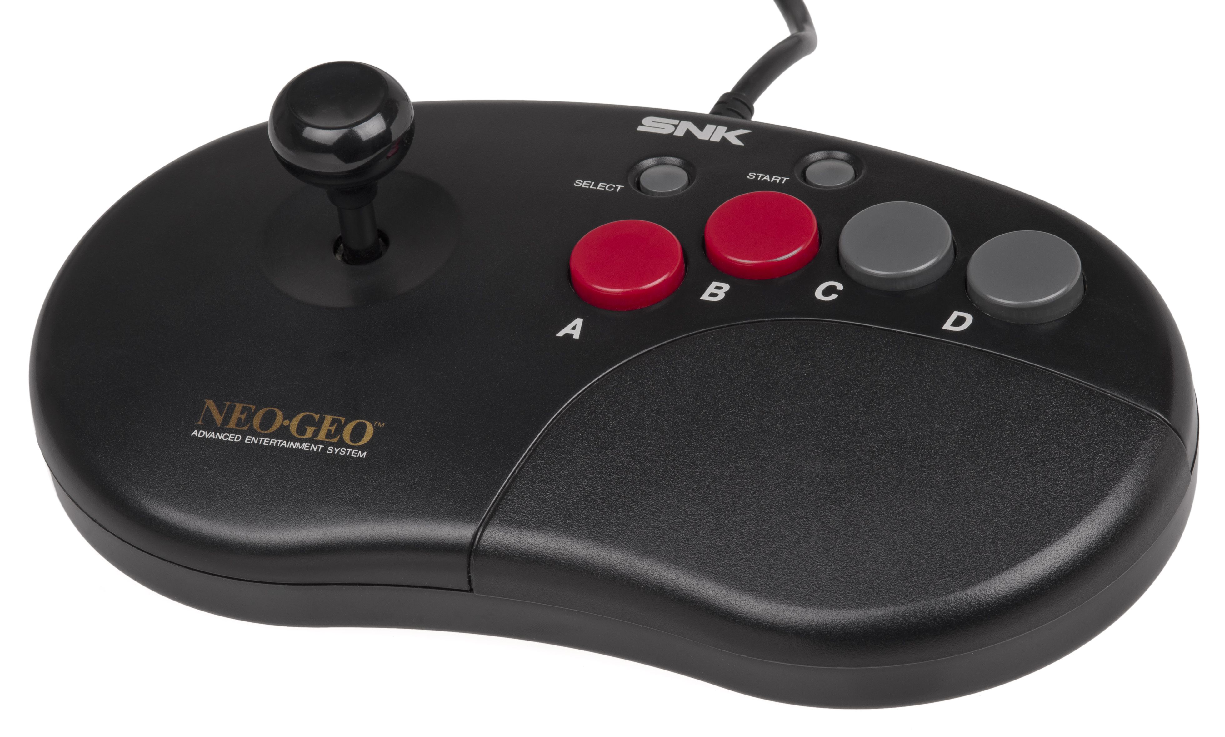 A Neo Geo Controller Pro, sold separately. For use with the Neo Geo AES and the Neo Geo CD.